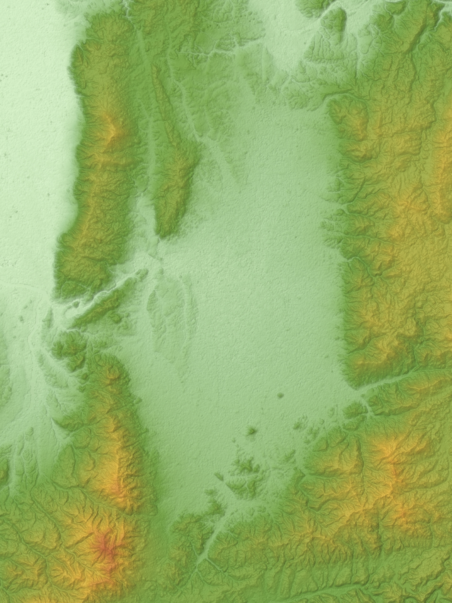 Nara Basin in Nara Prefecture, Honshu, Japan.